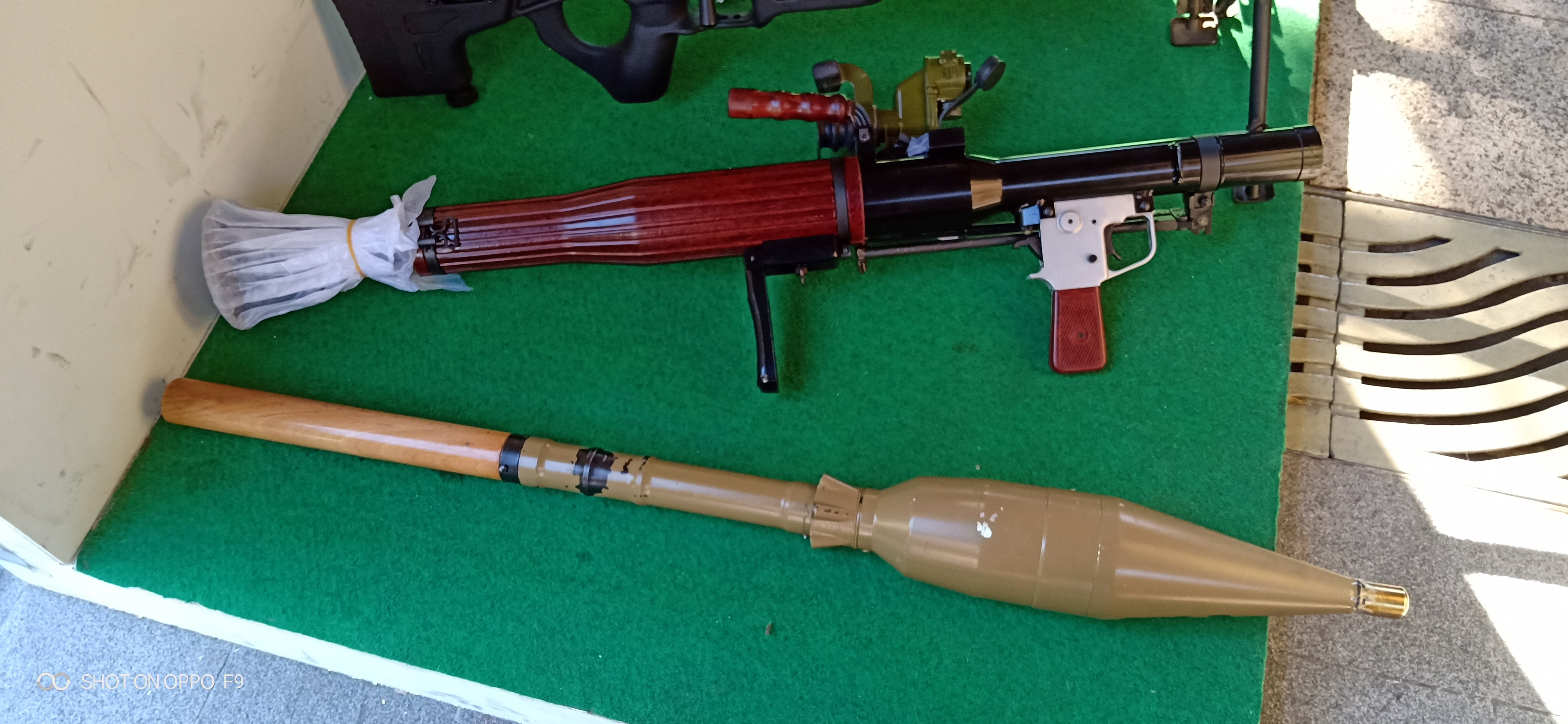 A Type 69 Rocket Propelled Grenade (RPG) that China donated to the Philippine Army (PA). Photo taken during the Philippine Army 2019 Info Caravan at the Bonifacio Global City.